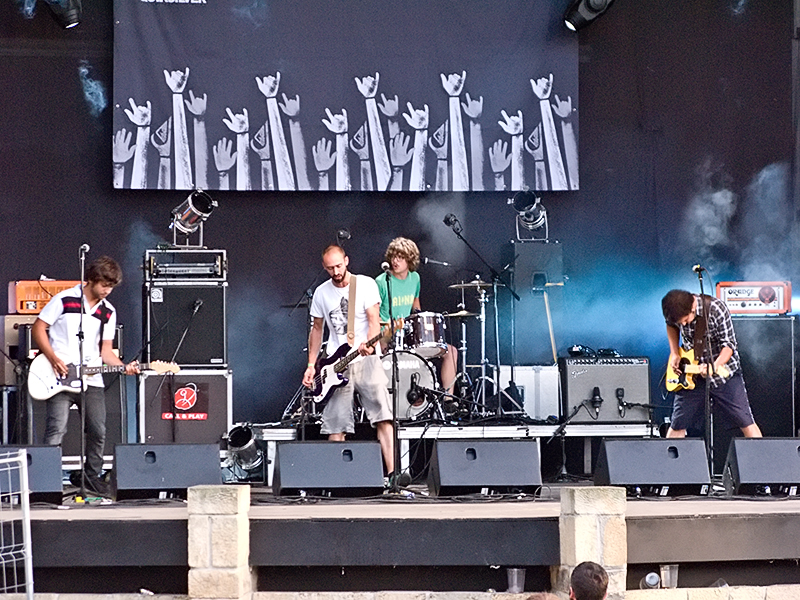 Shake Before Use in Suances (Takio Fest 2010)